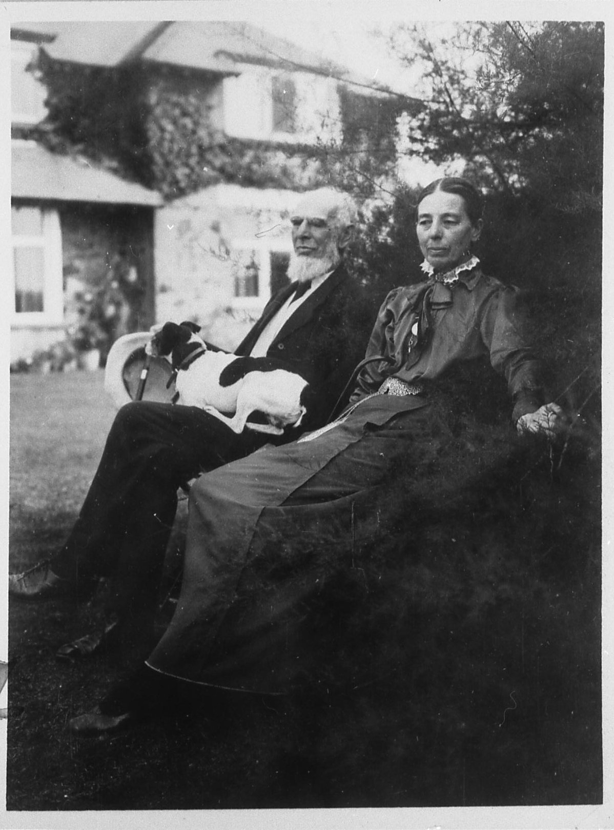 Leonard Courtney (1832-1918), 1st Baron Courtney of Penwith, politician. Catherine (Kate) Courtney (1847-1929), Lady Courtney of Penwith, social worker. Sister of Beatrice Webb. IMAGELIBRARY/1352 Persistent URL